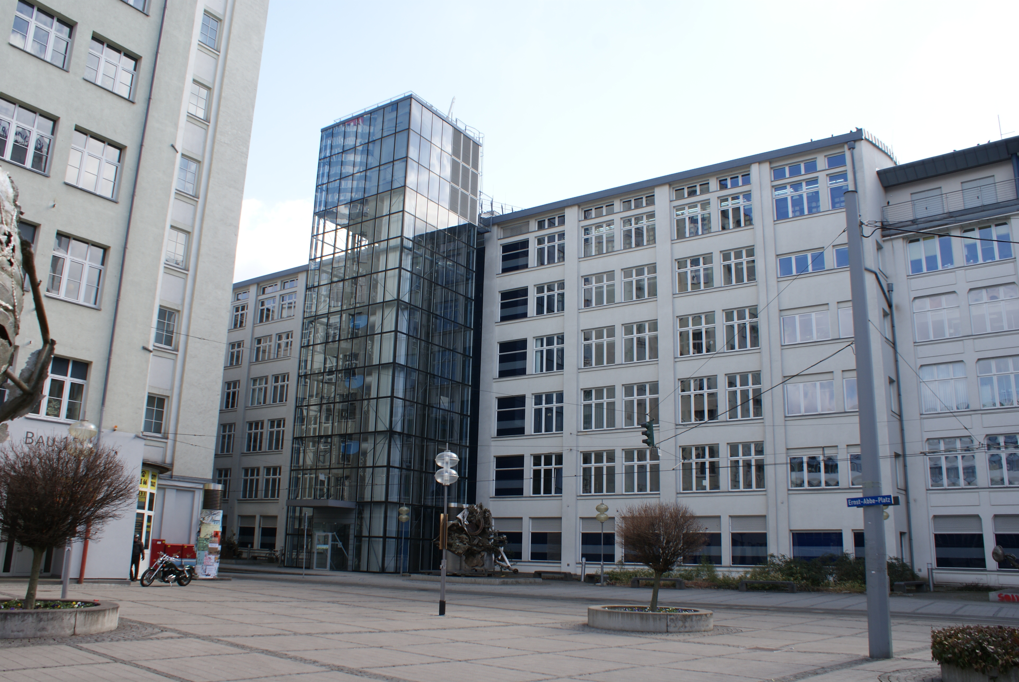 Building Ernst-Abbe-Platz 2 in Jena, place of the faculty for mathematics and computer science at Friedrich Schiller Universität Jena